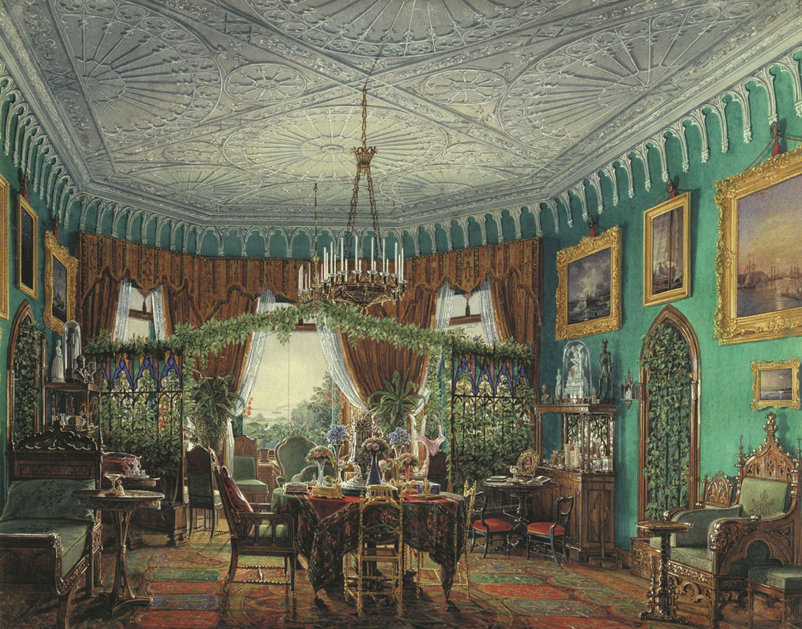 Interiors of the Cottage Palace (Peterhof). The Drawing Room.